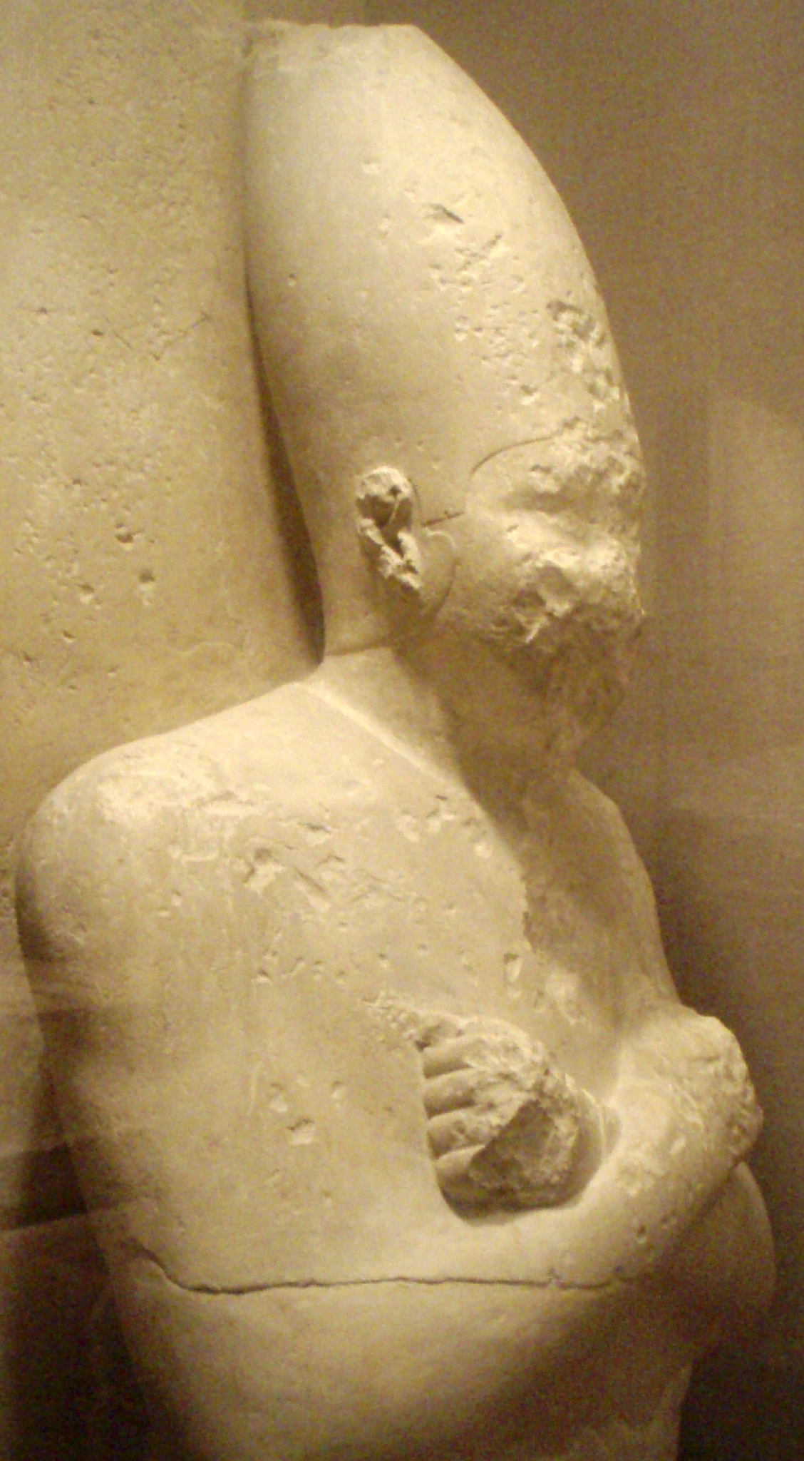 Osiride figure depicting Senusret I wearing the white crown of Upper Egypt. From his pyramid complex at Lisht, Circa 1962-1928 B.C.